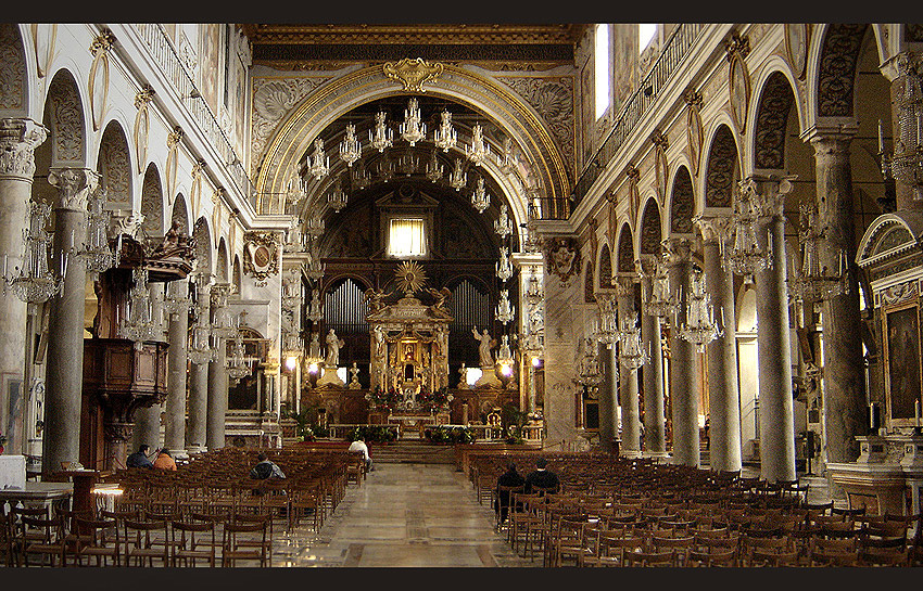 Interior of Ara Coeli, Rome